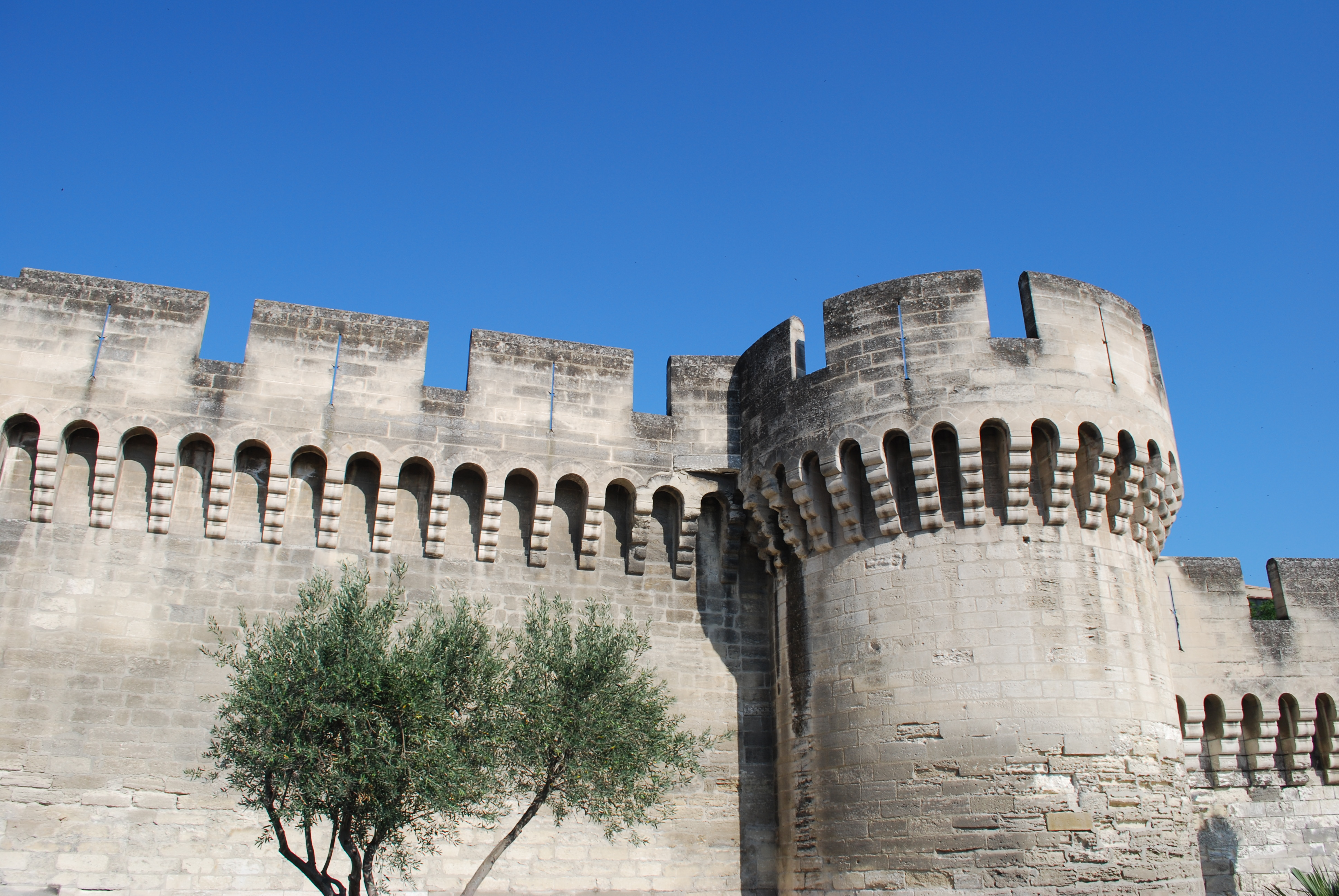 Detail from the walls of Avignon (France).